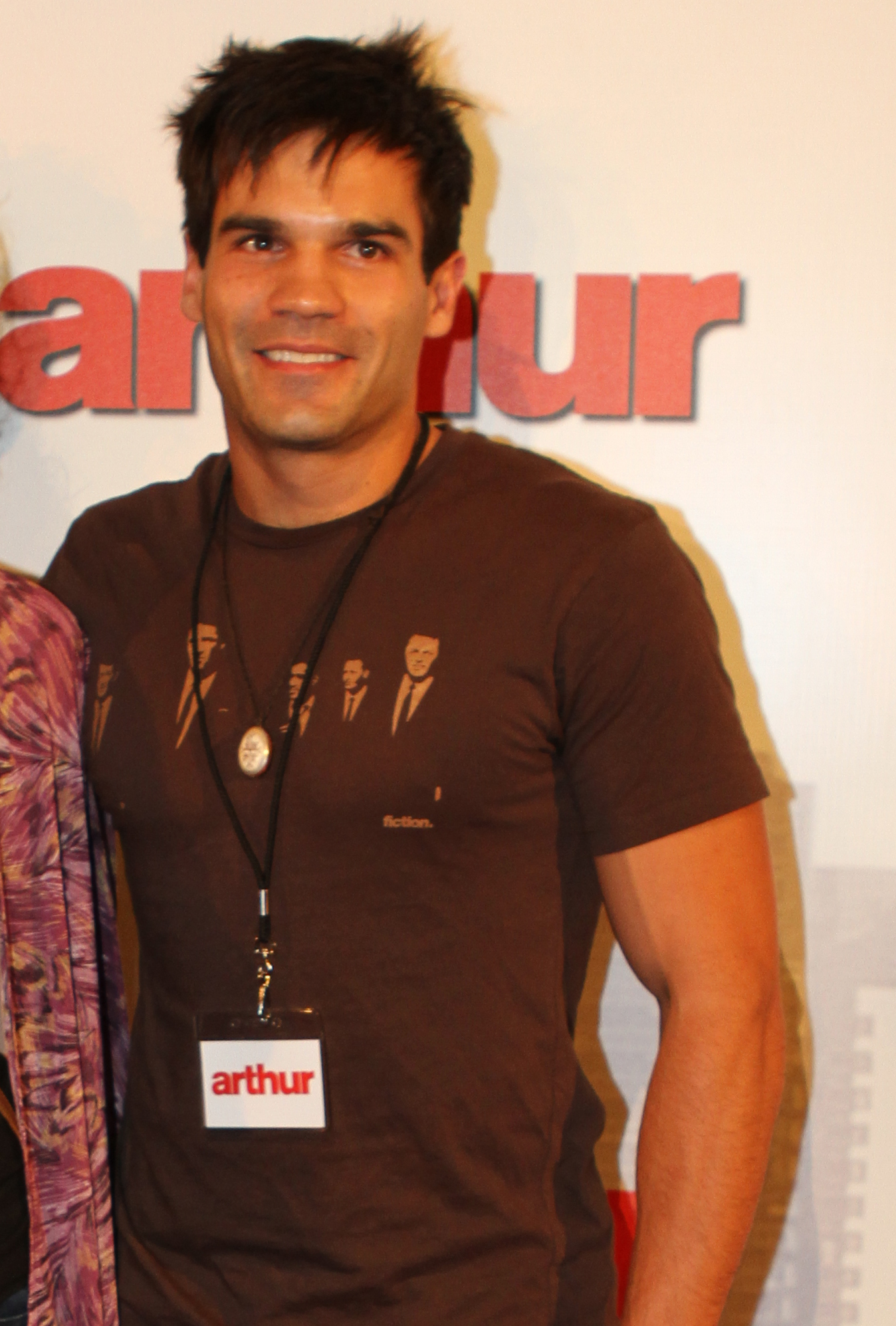 Daniel Amalm attending the Australian premier of Arthur.